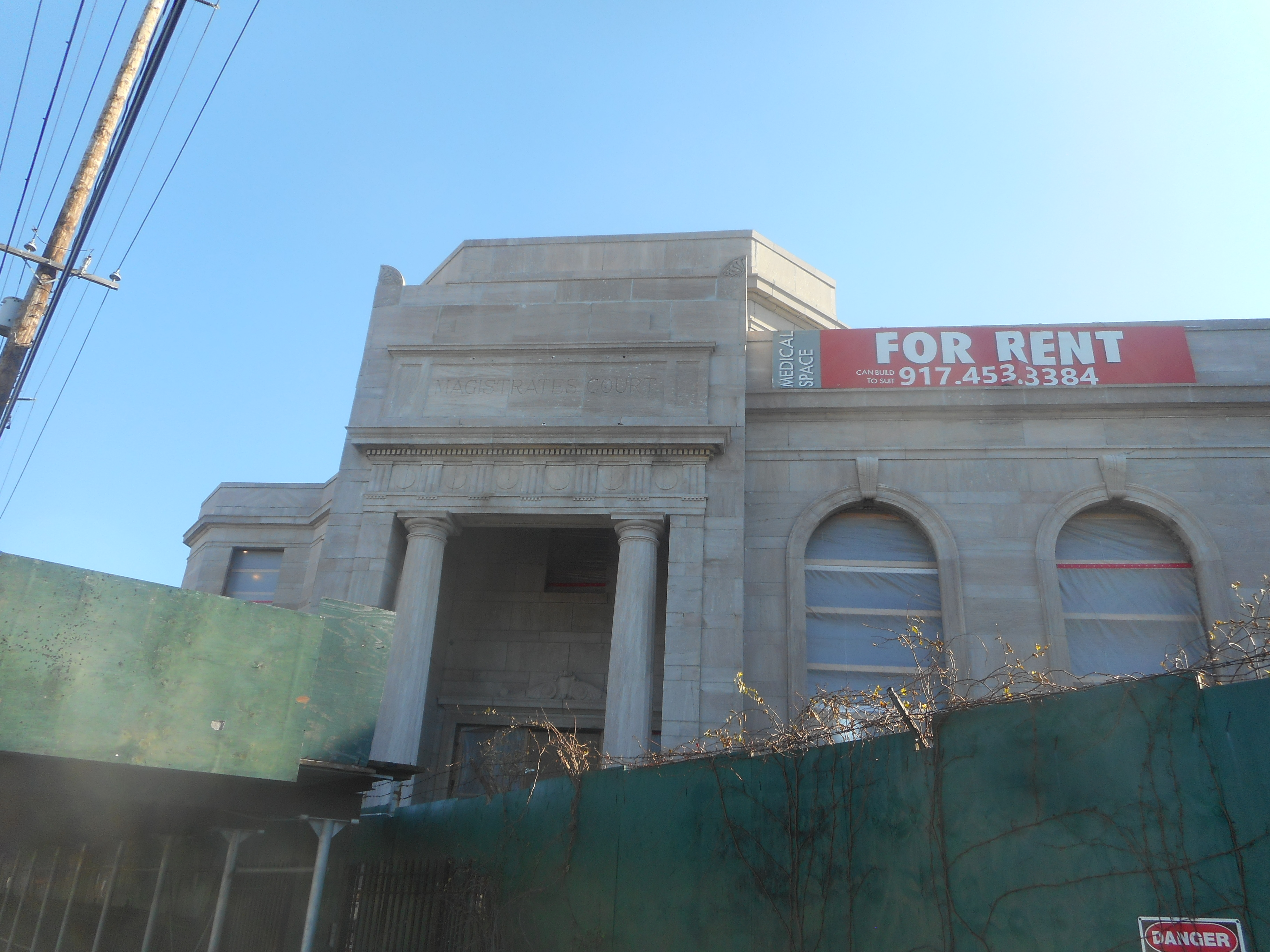 Images related to the NRHP listed former Rockaway Courthouse on Beach Channel Drive between Beach 91st and Beach 90th Streets in the Rockaway Beach section of the Rockaways in Queens, New York City. Further details, and a possible rename to come later.